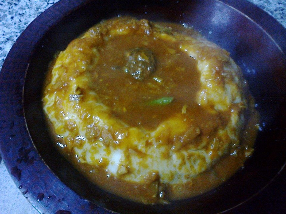 Arabic porridge, cooked with meat and hot sauce